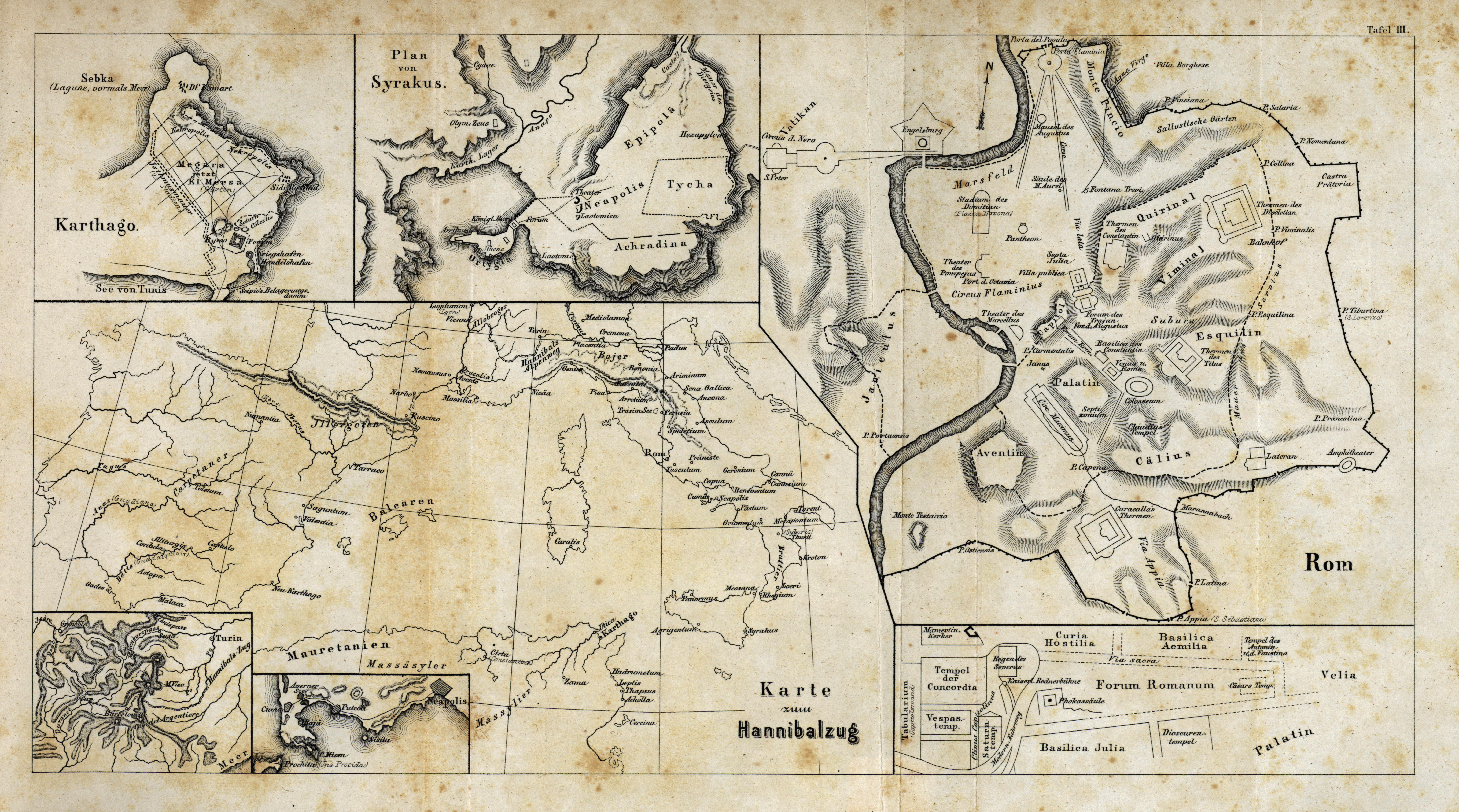 Map showing Hannibal´s route of invasion from Julius Braun's book Historische Landschaften, published at Stuttgart (Germany) in 1867 Original from Trier University Library, scanned by Bibhai